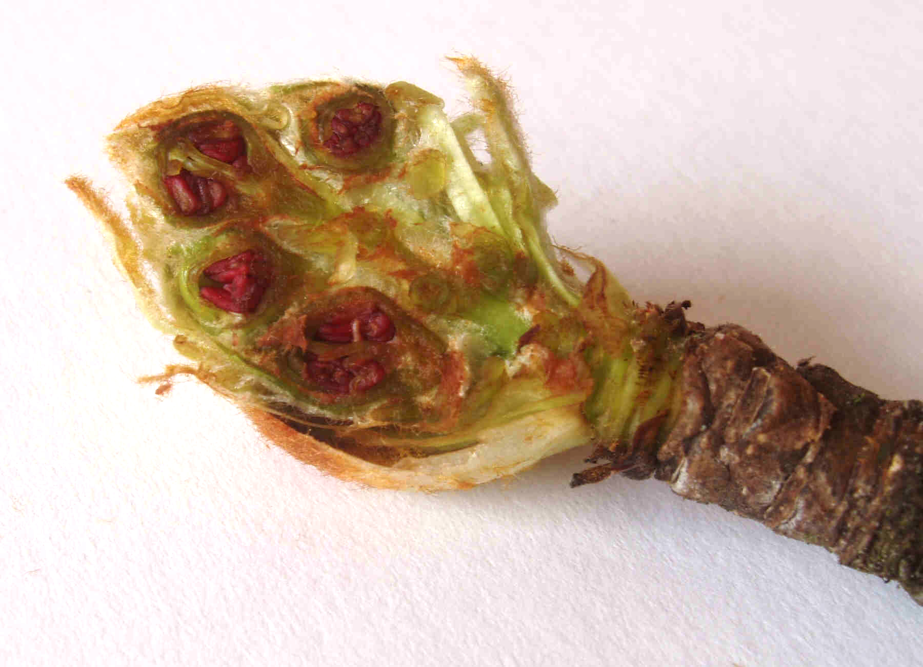 a cutted bud of a pear tree